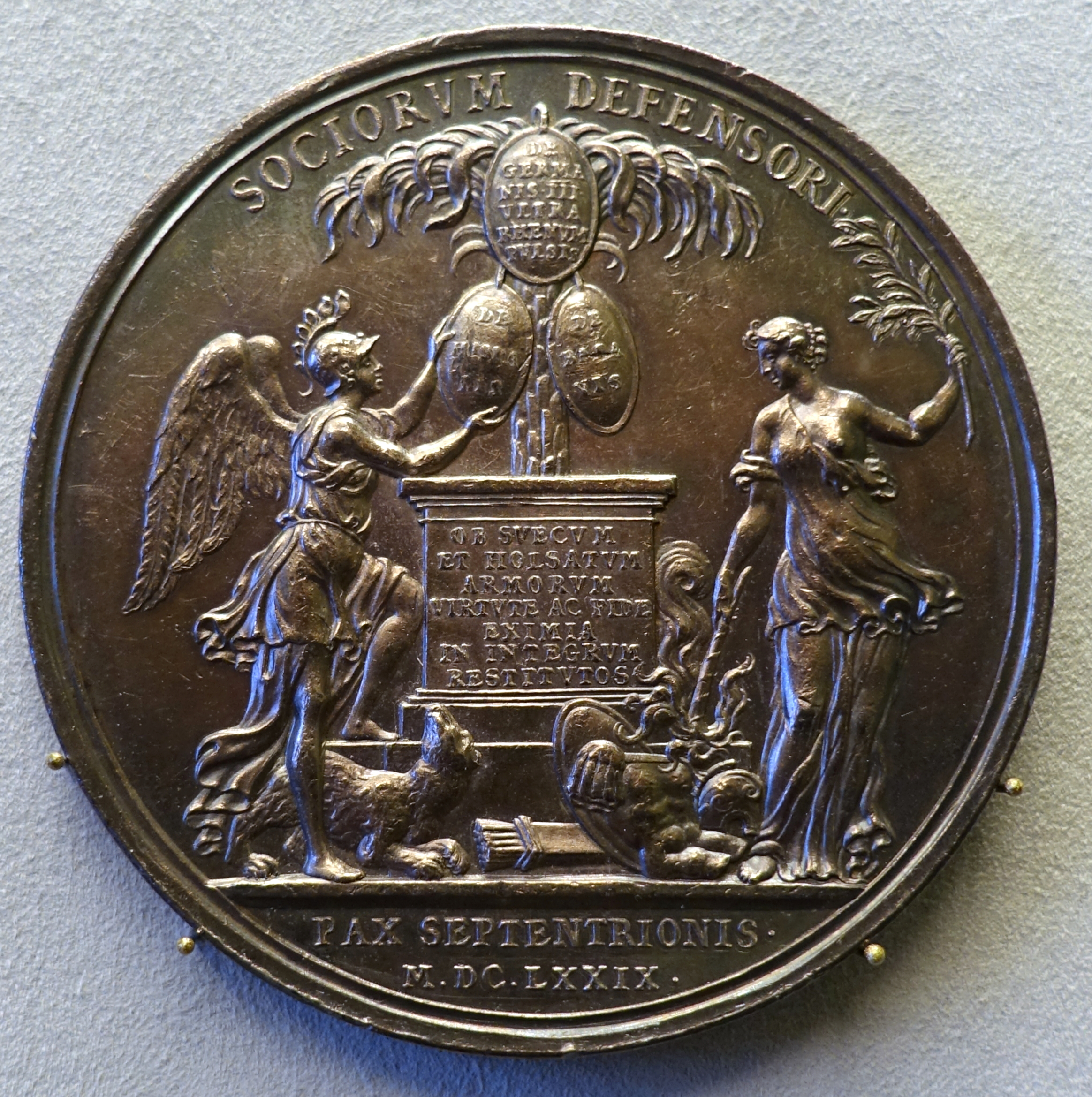 Exhibit in the Bode-Museum, Berlin, Germany. This work is in the public domain because the artist died more than 100 years ago.